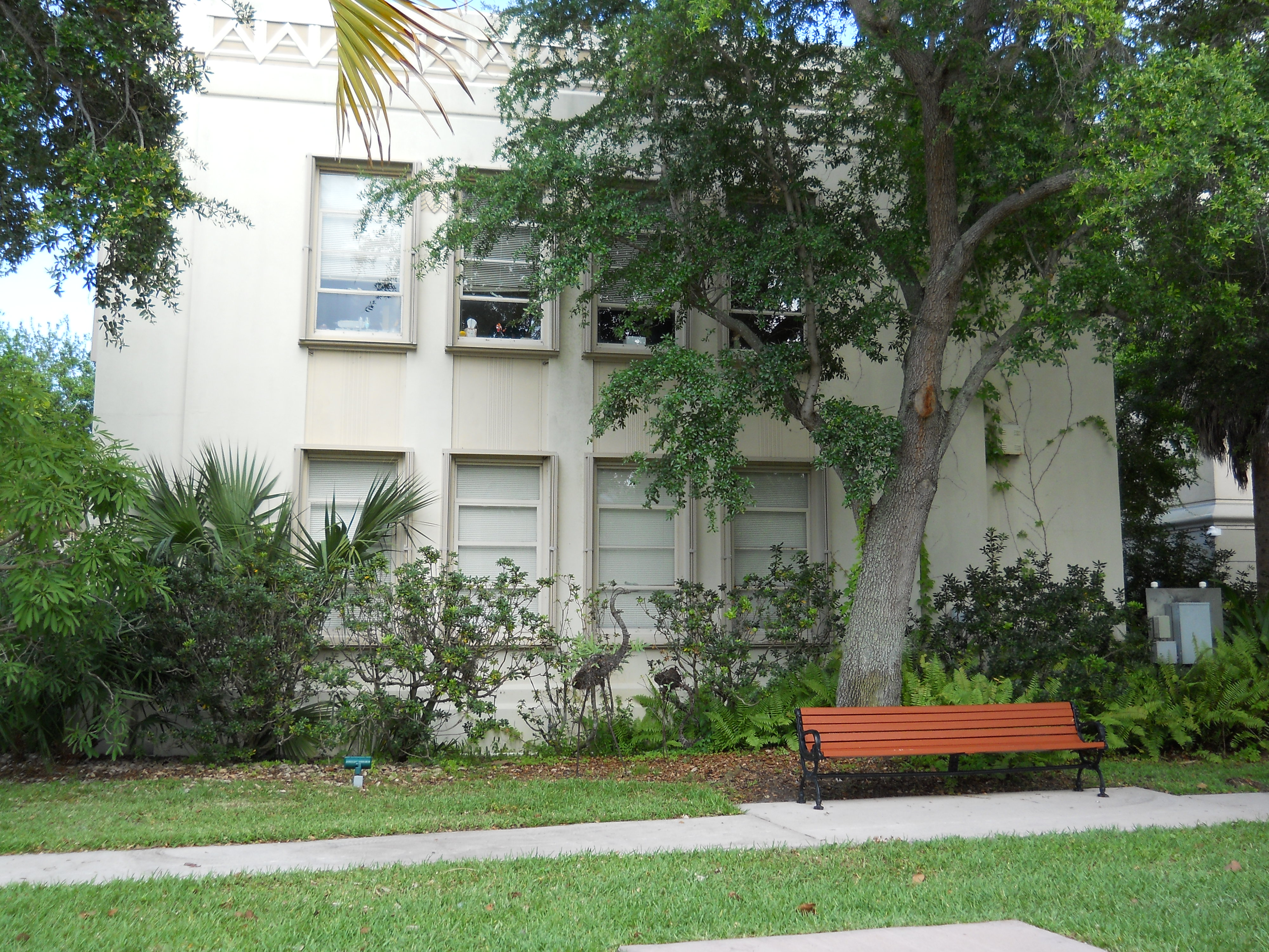 Old Martin County Courthouse, Stuart, Florida: West side facade. In 1954 this side was covered by the construction of a west wing which was demolished which the new courthouse and constitutional offices complex was built. A corner of the new courthouse is shown in the right center edge